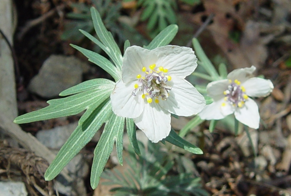 Shibateranthis pinnatifida, in Mount Fujiwara, Inabe, Mie, Japan.